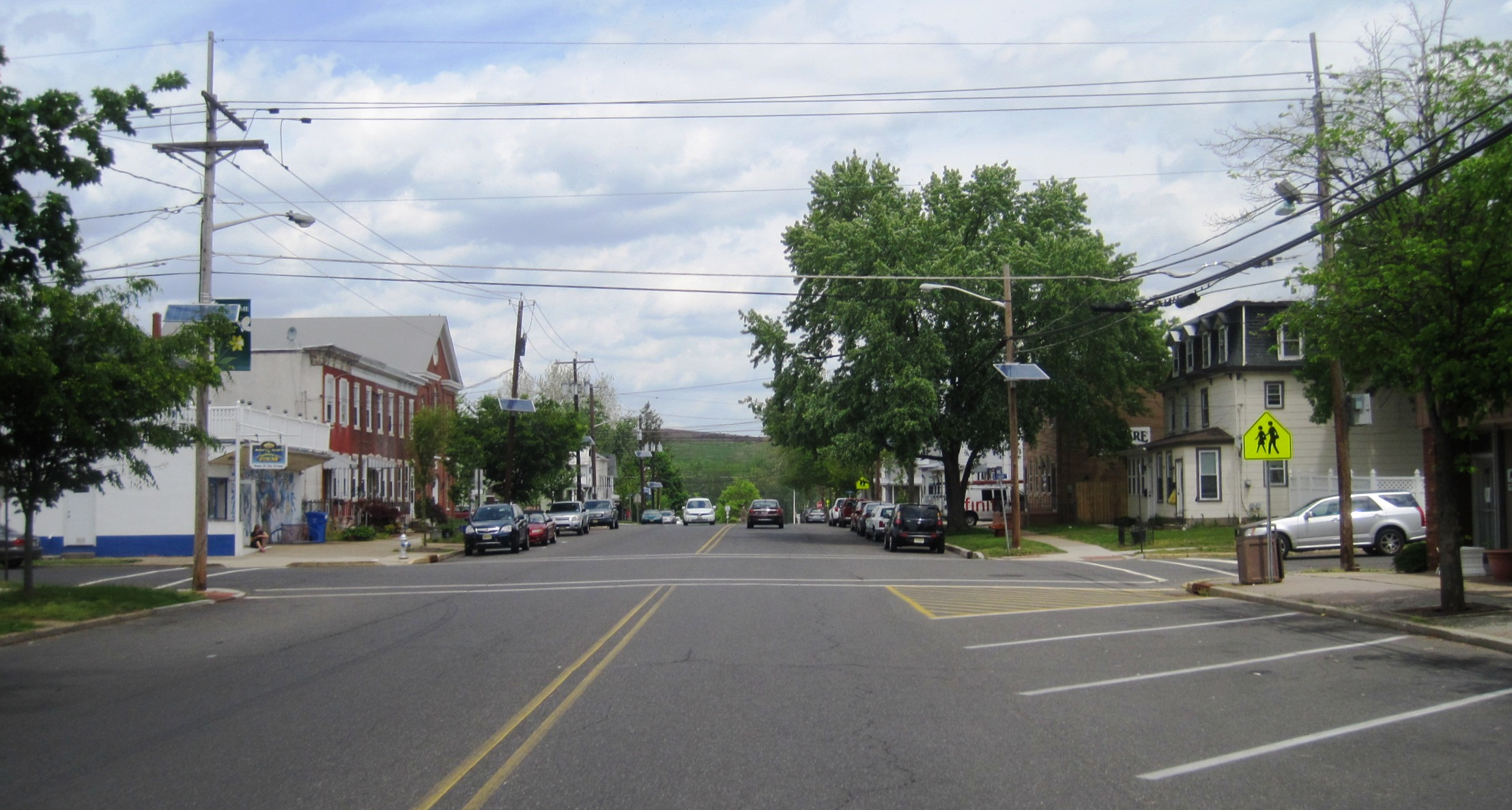 Photograph showing downtown Florence, New Jersey. Photo taken at the intersection of Broad Street (ahead, looking north) and 3rd Avenue.